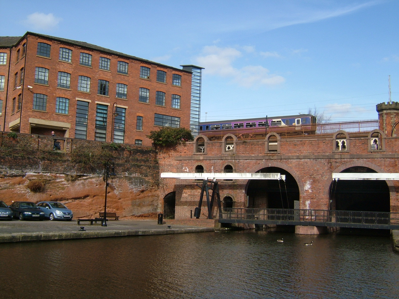 The Bridgewater Canal was commissioned by Francis Egerton, 3rd Duke of Bridgewater, to transport coal from his mines in Worsley to Manchester. Castlefield was the Manchester basin, and it was watered by the River Medlock. Grocers Warehouse remains